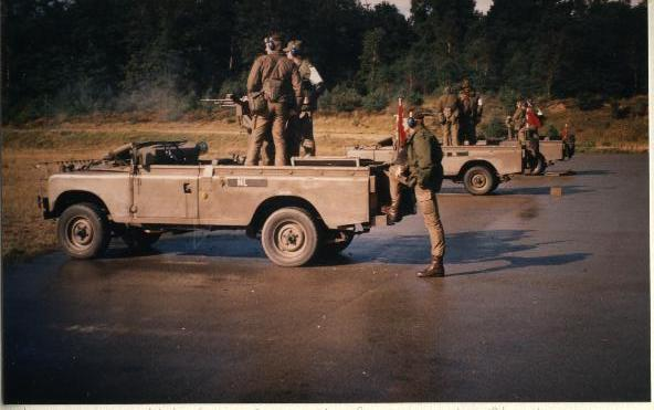 Cut-off landrover with MAG-machine gun.